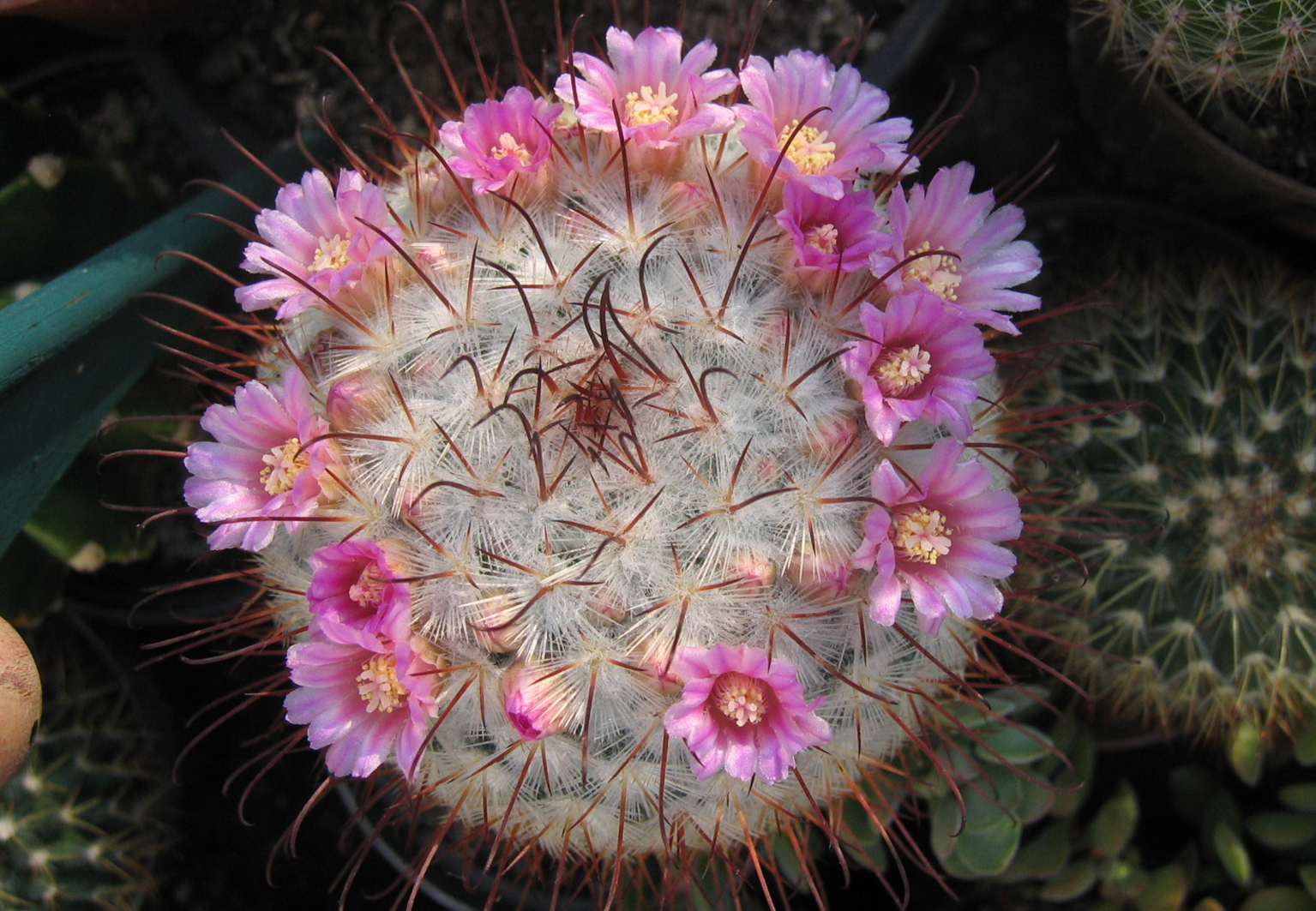 Mammillaria bombycina with blossoms Foto: Rolf Thum, taken in April 2006; own cactus collection in Hockenheim